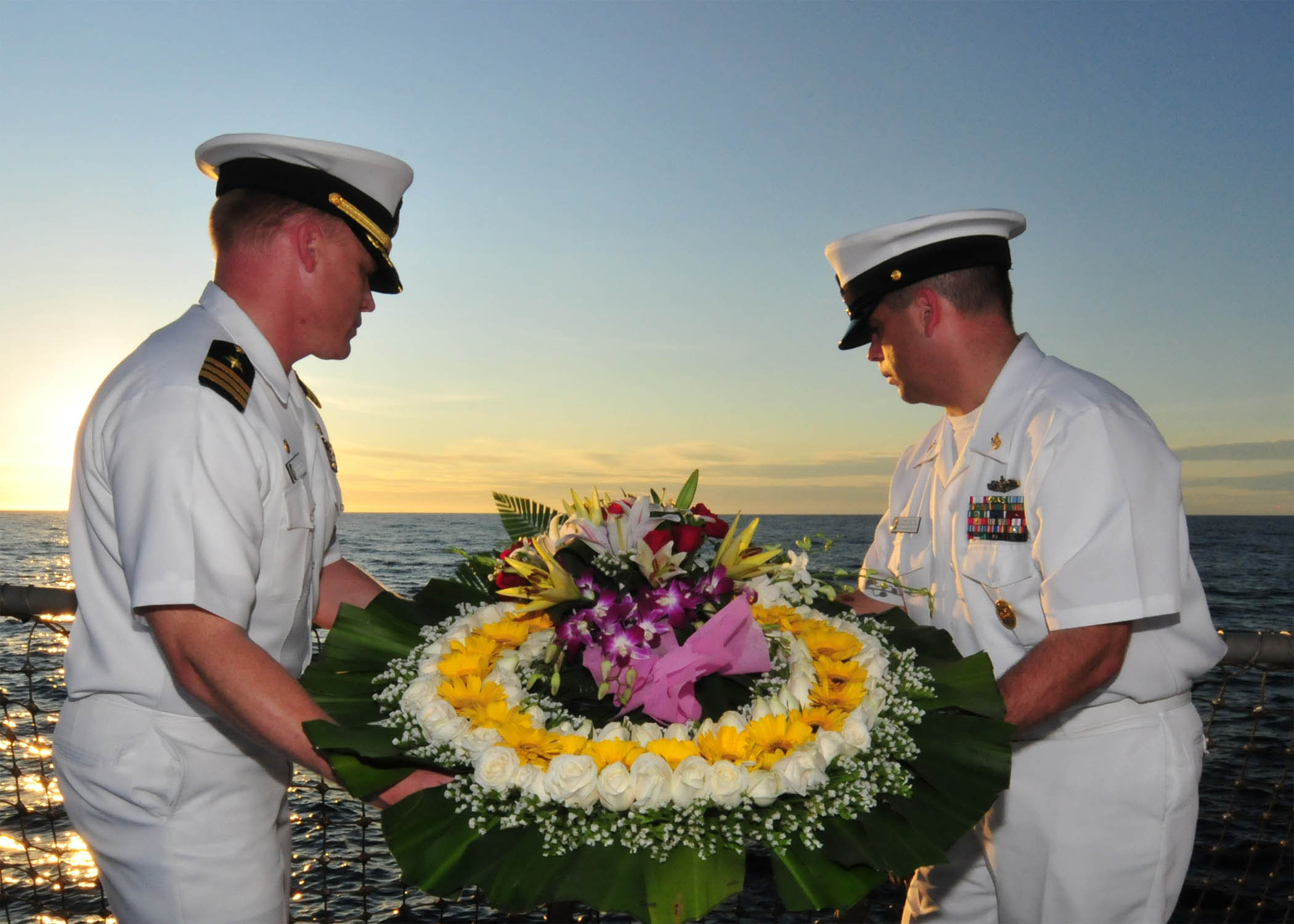 SOUTH CHINA SEA (July 21, 2011) Cmdr. Stephen Erb, commanding officer aboard the guided-missile destroyer USS Chung-Hoon (DDG 93), left, and Command Master Chief Chris Detje prepare to place a wreath in the ocean, commemorating the 44th anniversary of the tragic accidents aboard the super carrier USS Forrestal (CVN 59) as the ship transits near Yankee Station. Chung-Hoon is deployed supporting Cooperation Afloat Readiness and Training (CARAT) 2011. (U.S. Navy photo by Mass Communication Specialist 2nd Class Katerine Noll/Released)